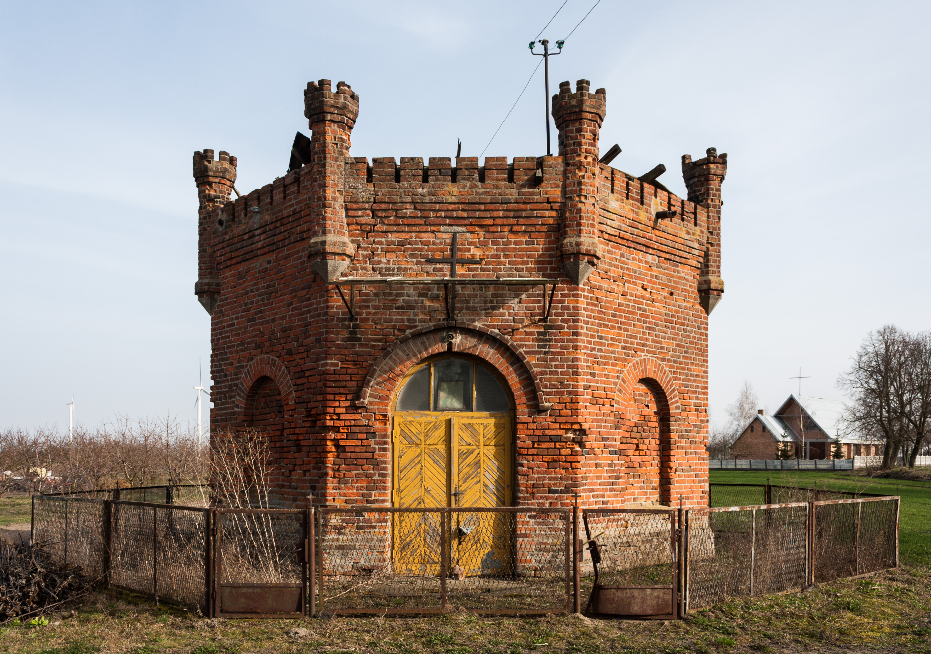 Former forge from ca 1900 in Sierzchowo, Aleksandrów County, Kuyavian-Pomeraniach Voivodeship, Poland, converted into a chapel, now unused.